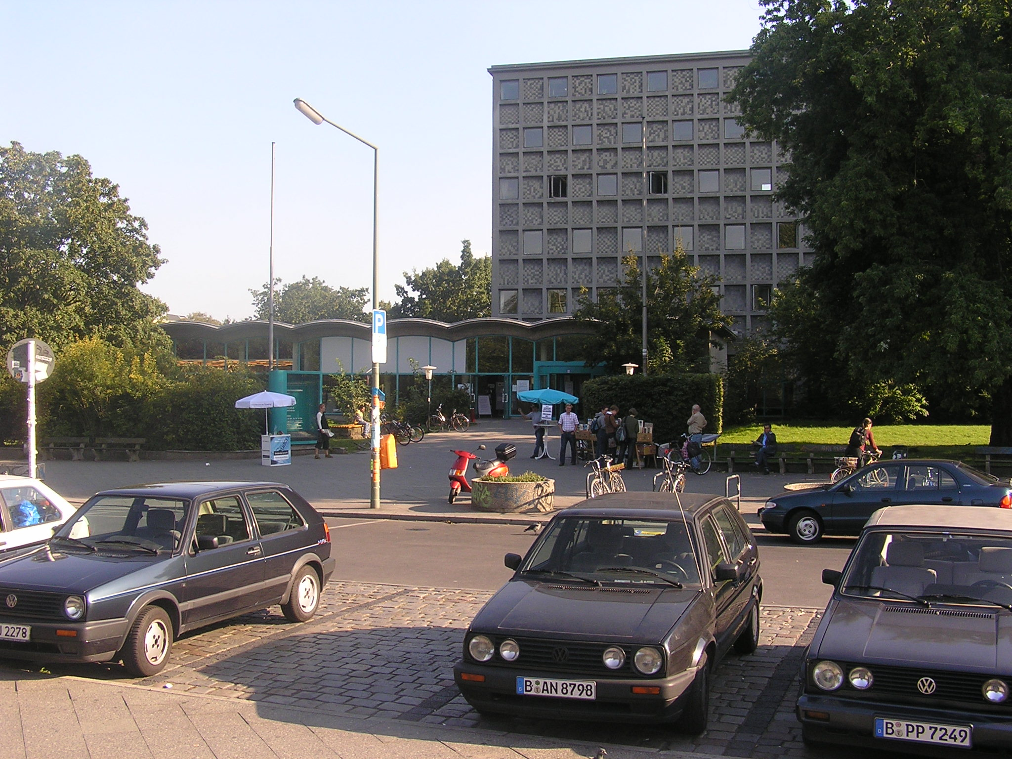 The front of the Amerika-Gedenkbibliothek in Berlin.